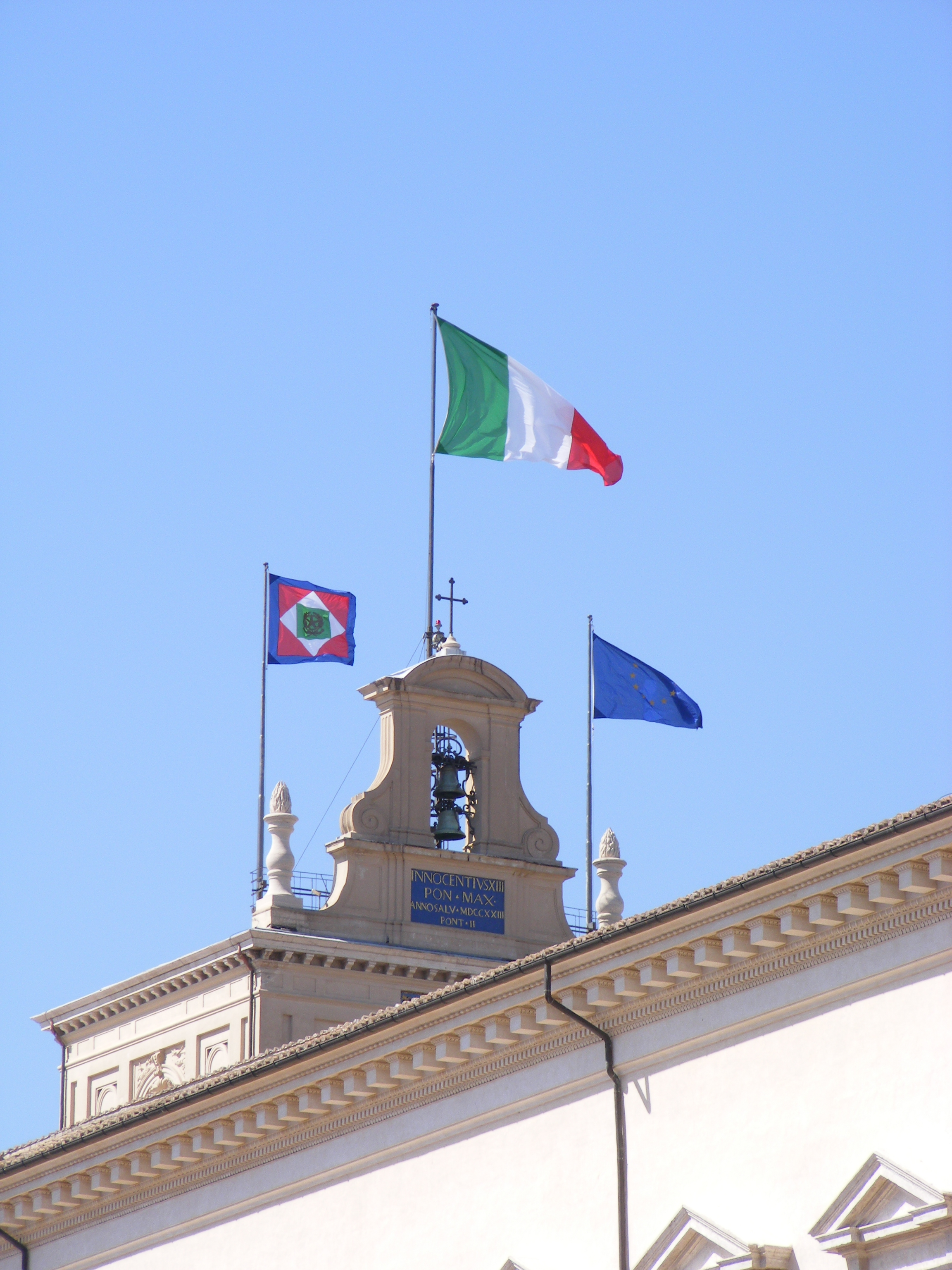 Palazzo del Quirinale (Rome) with the Standard of the President of the Italian Republic, the flag of the Republic of Italy and the flag of the European Union (l.t.r.).